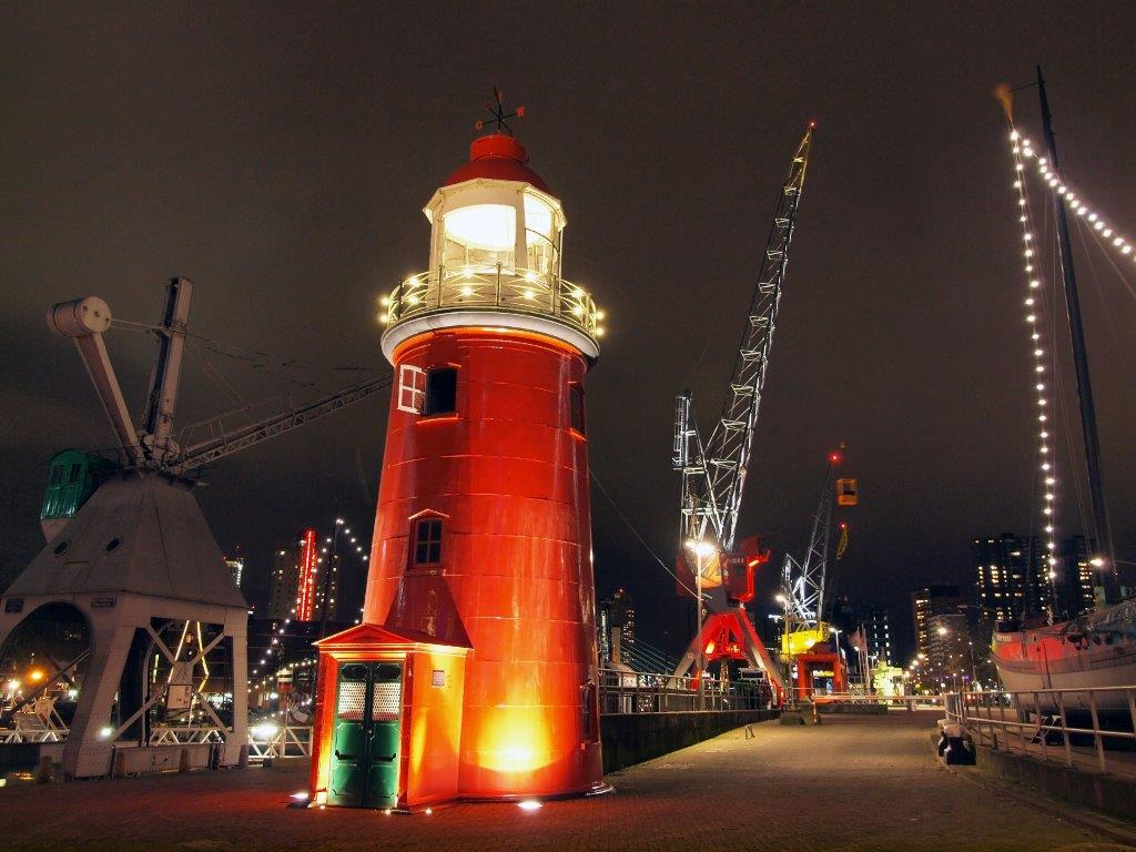 Maritiem Museum Rotterdam - "Het Lage Licht" at the Museumhaven